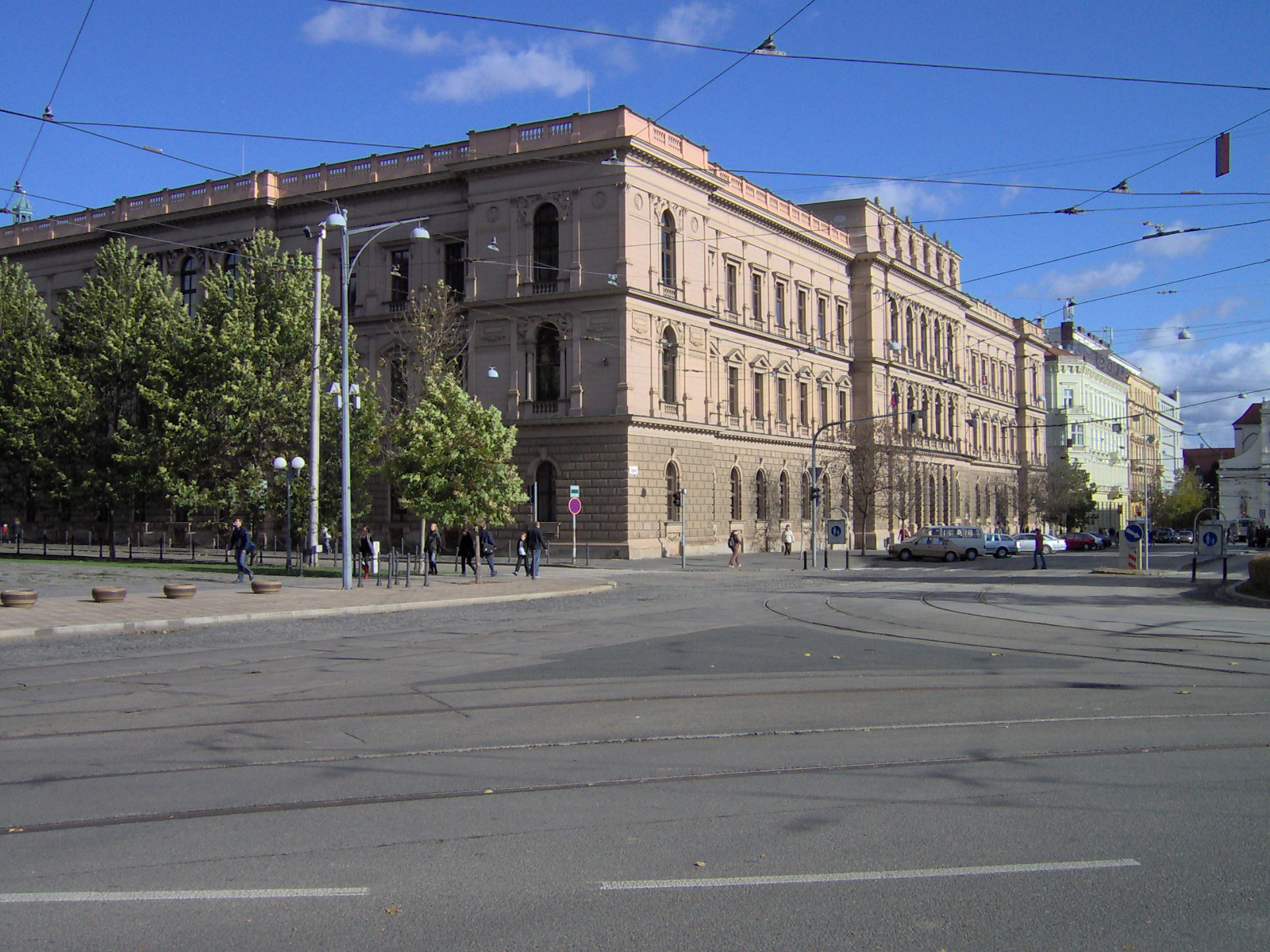 Tram tracks in Komenského náměstí (Comenius Square)